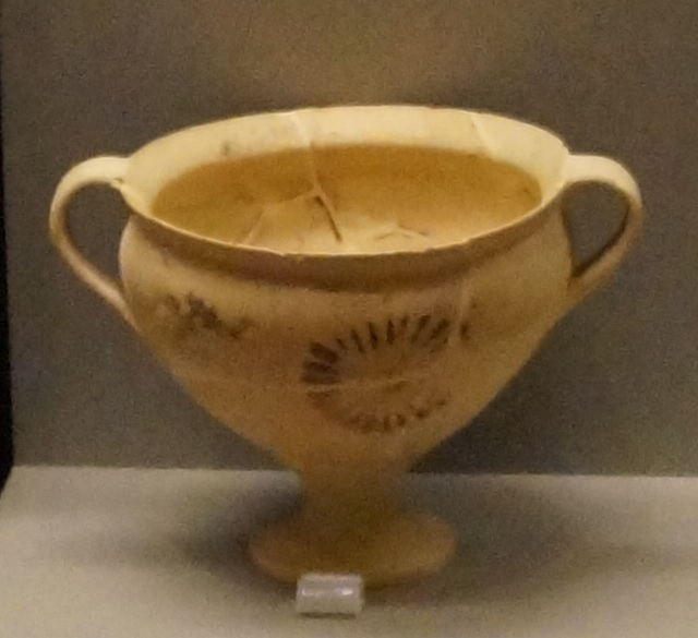 National Archaeological Museum of Athens: Ephyraean goblet from Prosymna (LH II B, middle of 15th century BC)